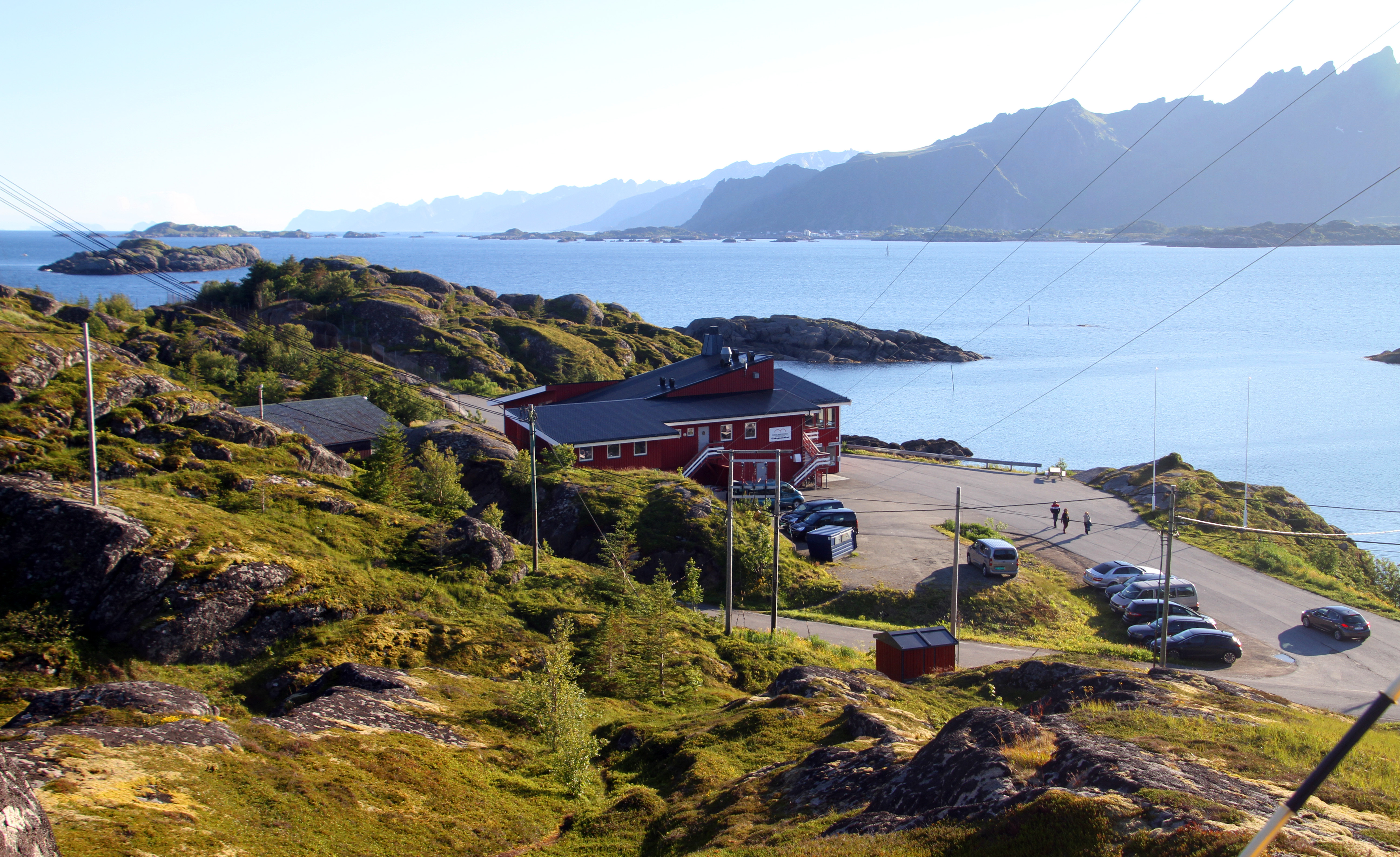 Settlement Mortsund, Vestvågøy, Lofoten, Norwegen